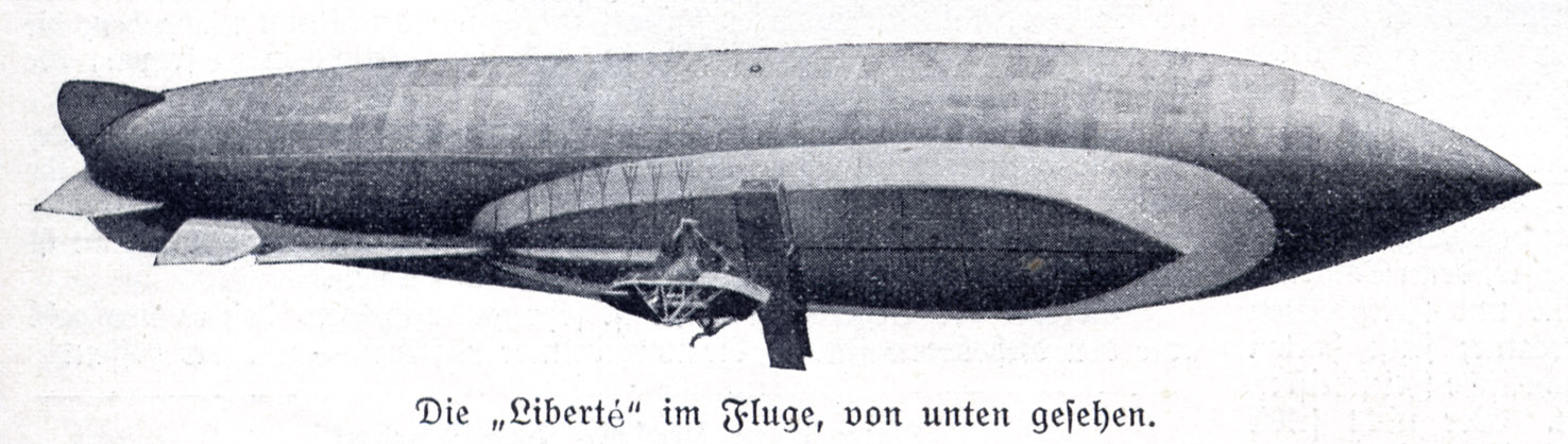 Photo of the Lebaudy airship "Liberté", as seen in a german catholic magazine from January 1910.